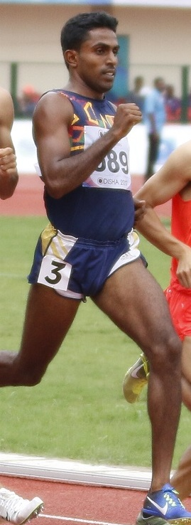 Athletes during 22nd Asian Athletics Championships in Bhubaneswar.